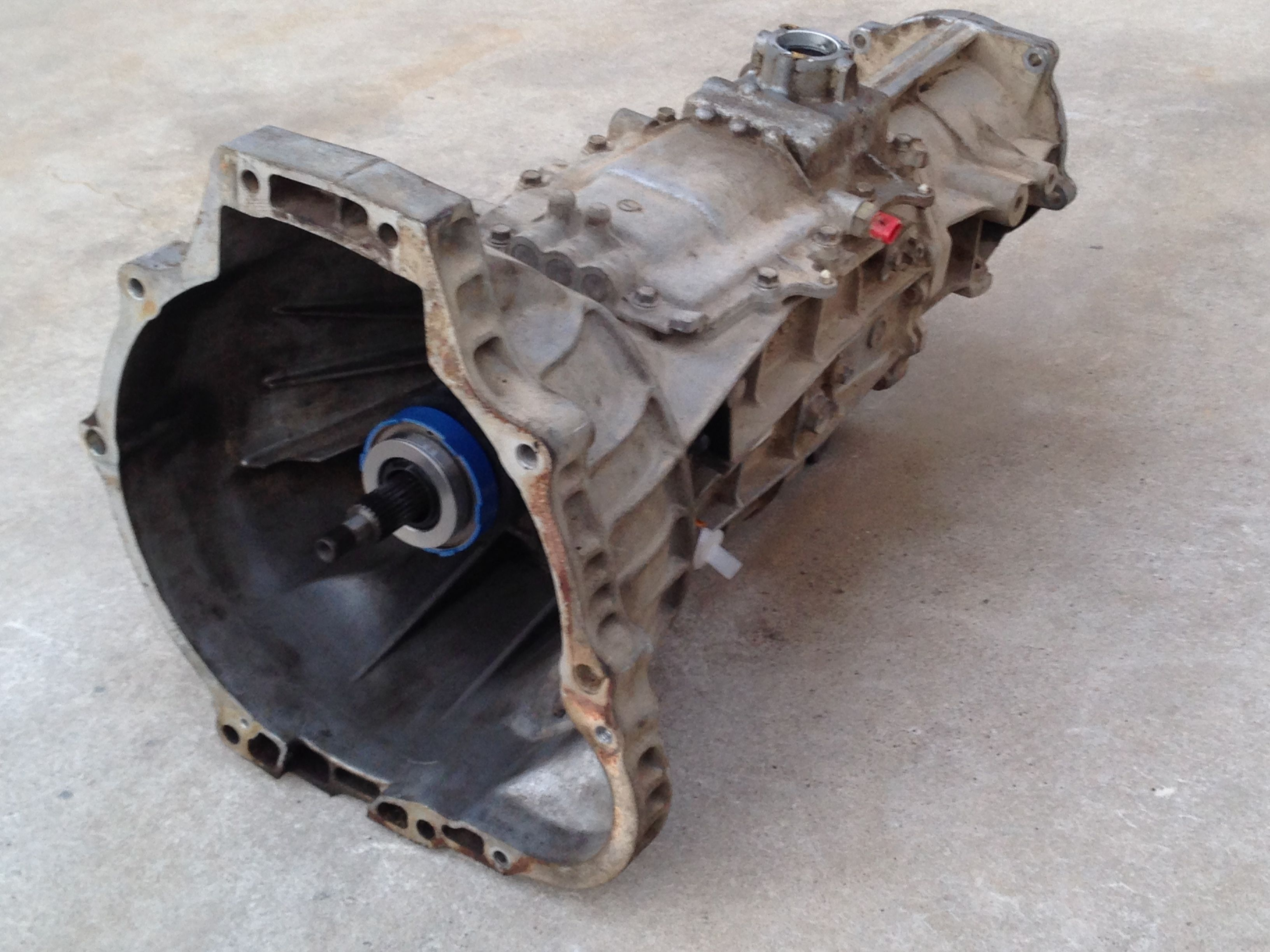 ¾ view of Mazda M5OD transmission out of a 1998 Ford Ranger 4WD.